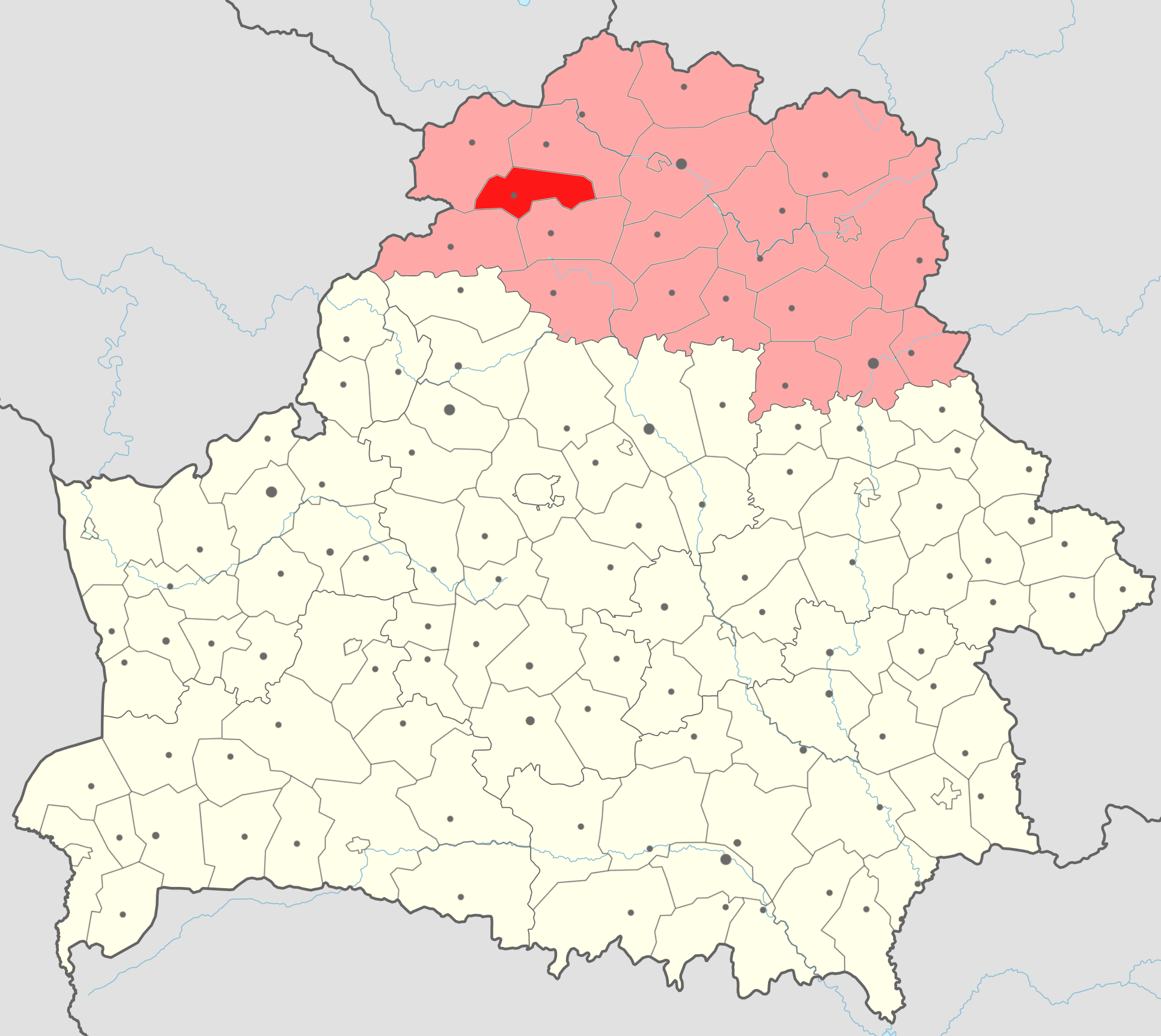 Map of Šarkaŭščynski raion (in red) with Viciebskaja voblast' (in light red) on the map of Belarus.